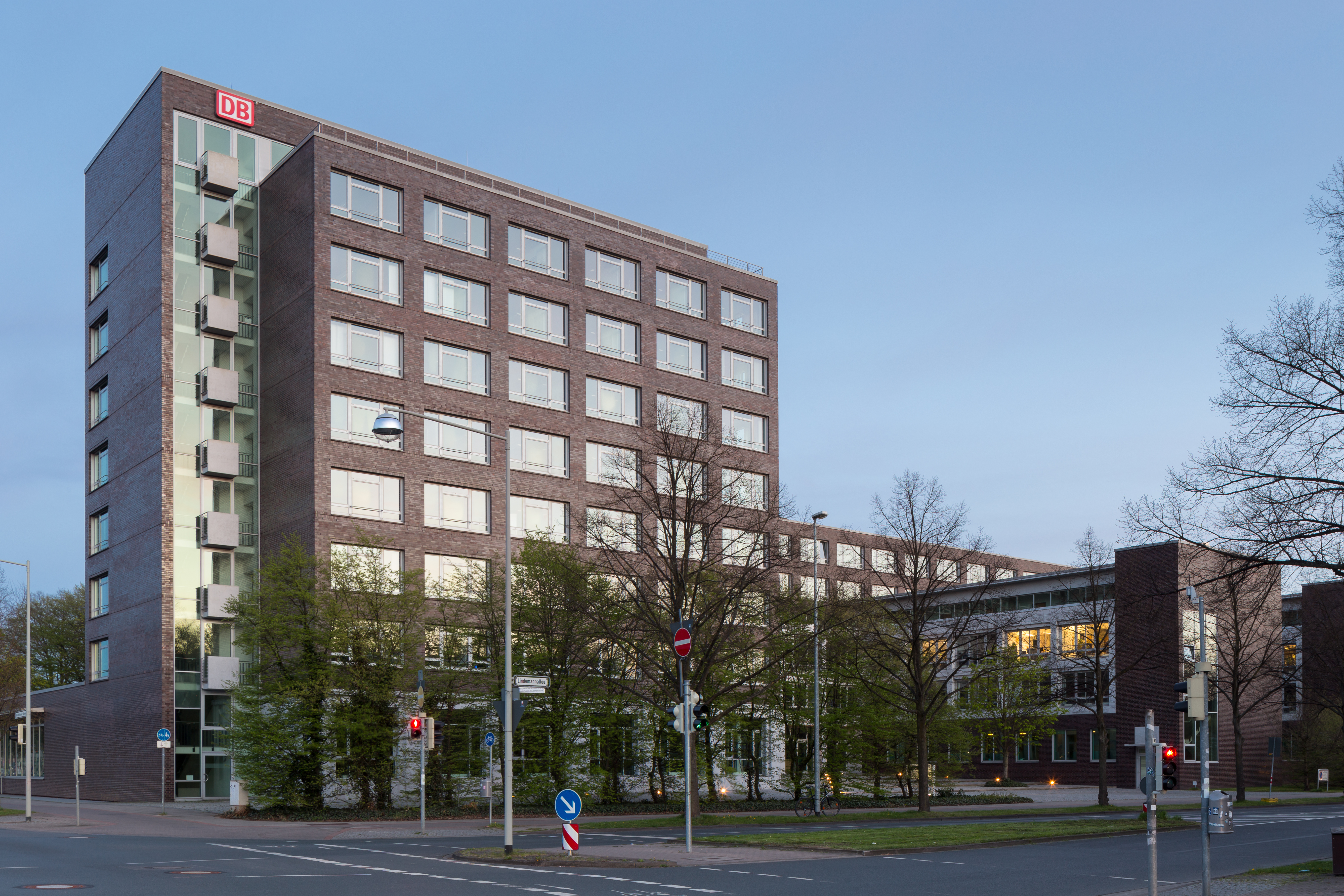 Office building of DB-Netz company located at Lindemannallee and Bischofsholer Damm in Bult quarter of Hannover, Germany.